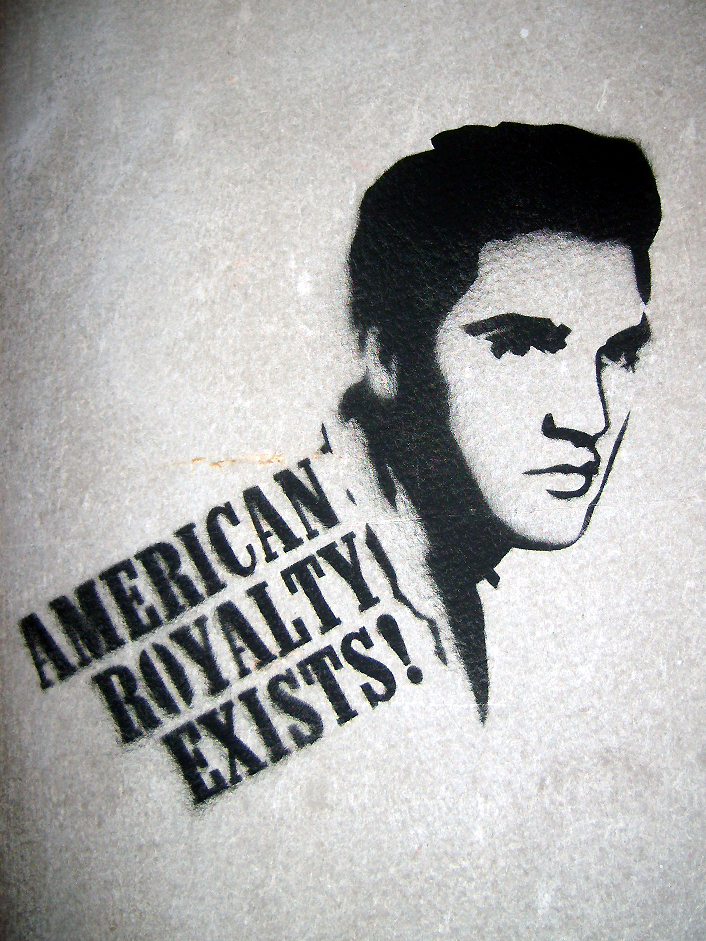 An Elvis Presley stencil, made with black spray paint.